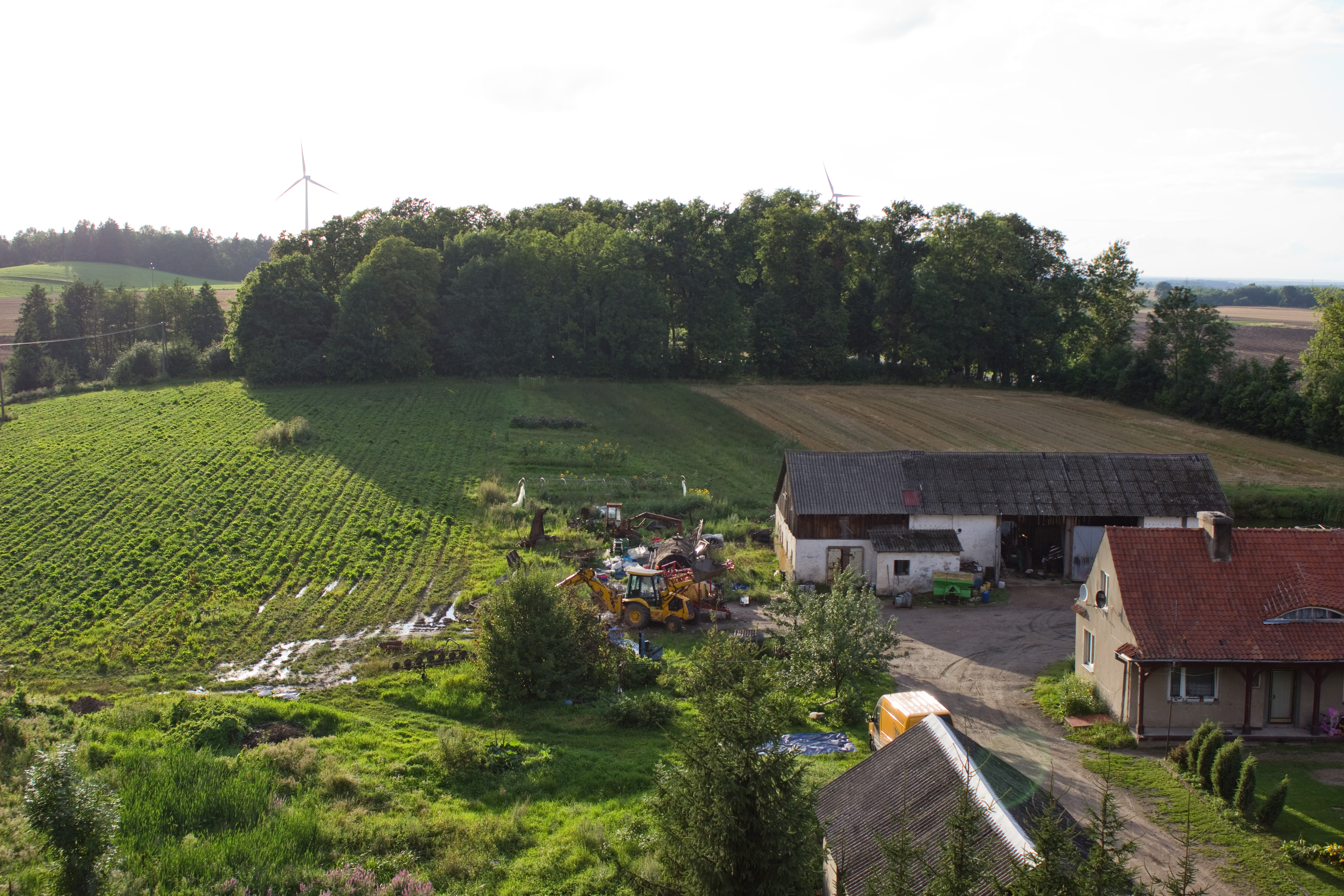 Kraskowo, gmina Korsze, powiat kętrzyński, Warmian-Masurian Voivodeship